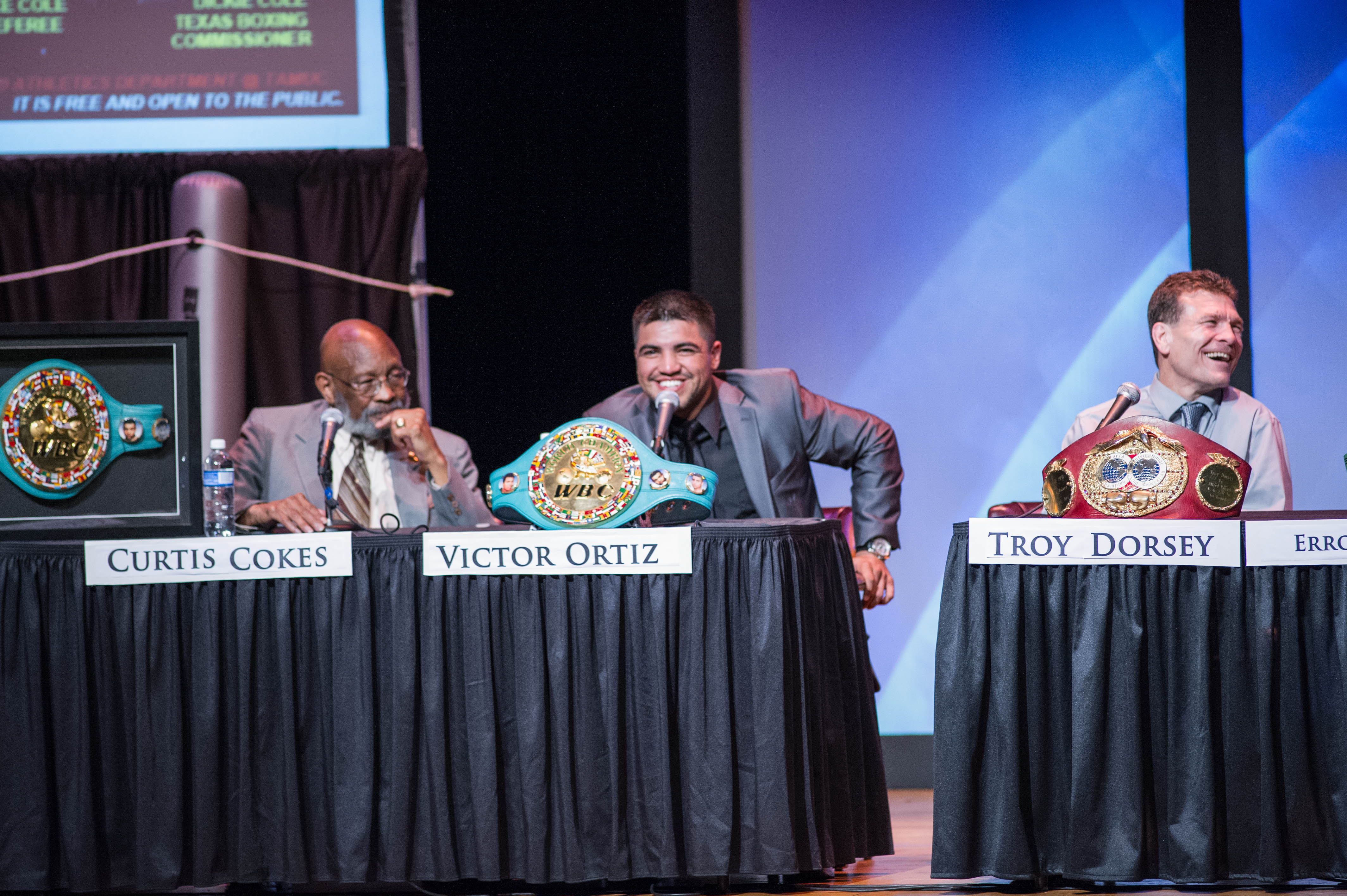 Troy Dorsey at the Texas A&M University-Commerce campus for a panel discussion and Q&A session on March 19, 2014.